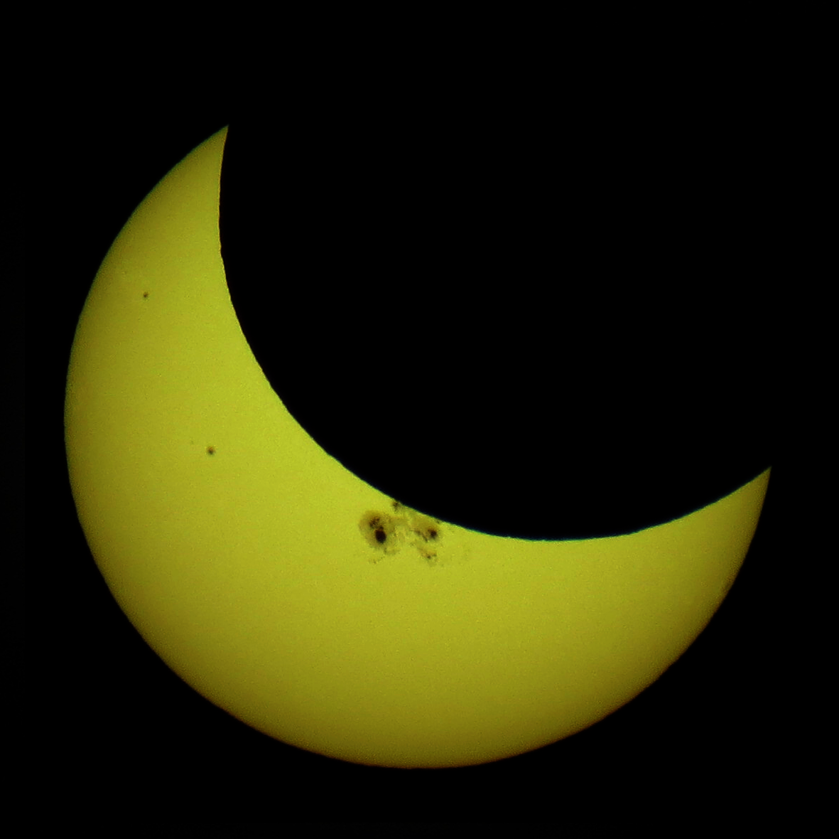 Solar eclipse of October 23, 2014 from Minneapolis, Minnesota, 5:36pm CDT (10:36 UTC), near greatest eclipse